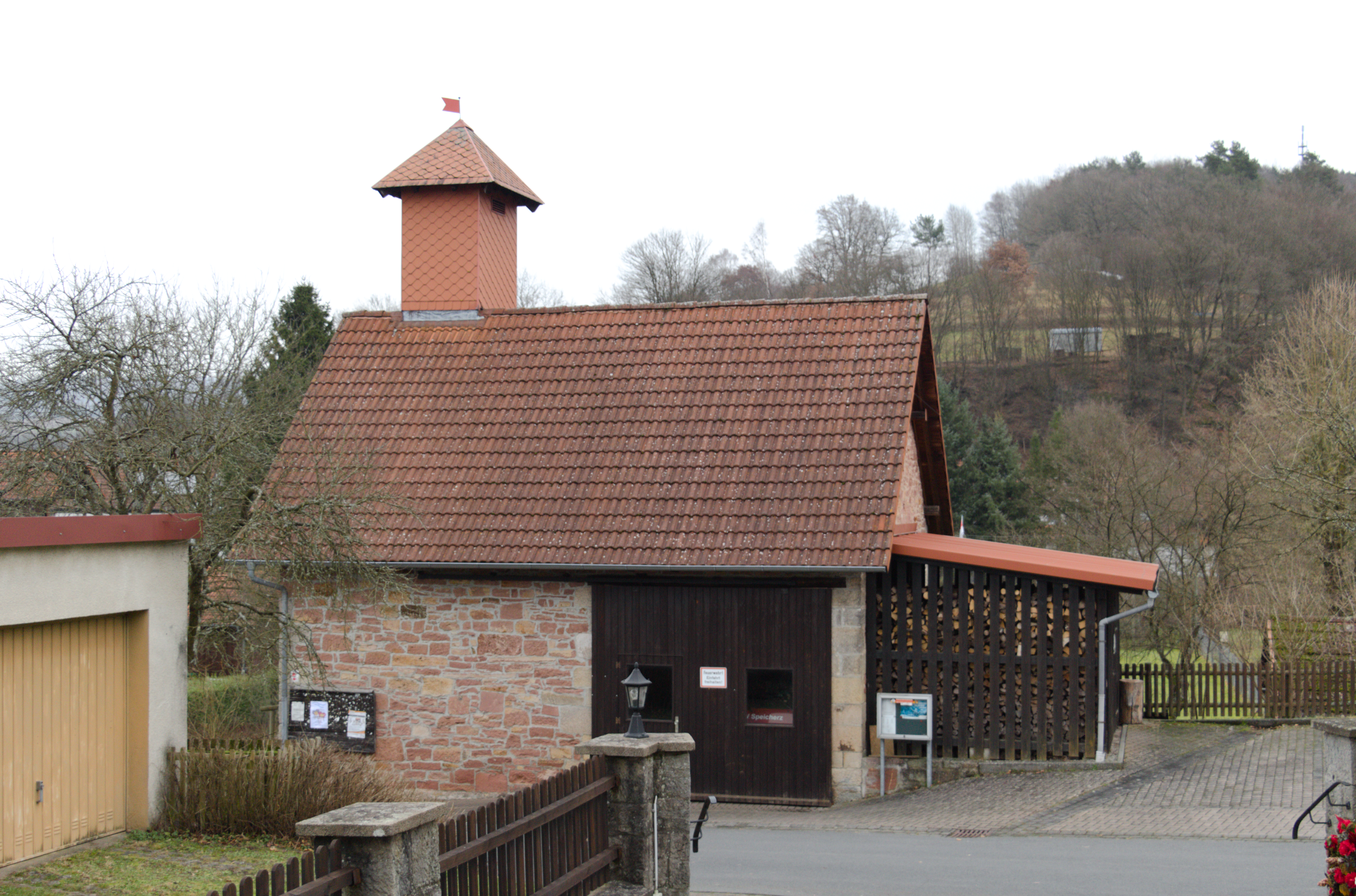 Fire Station in Speicherz, Motten, Bavaria, Germany